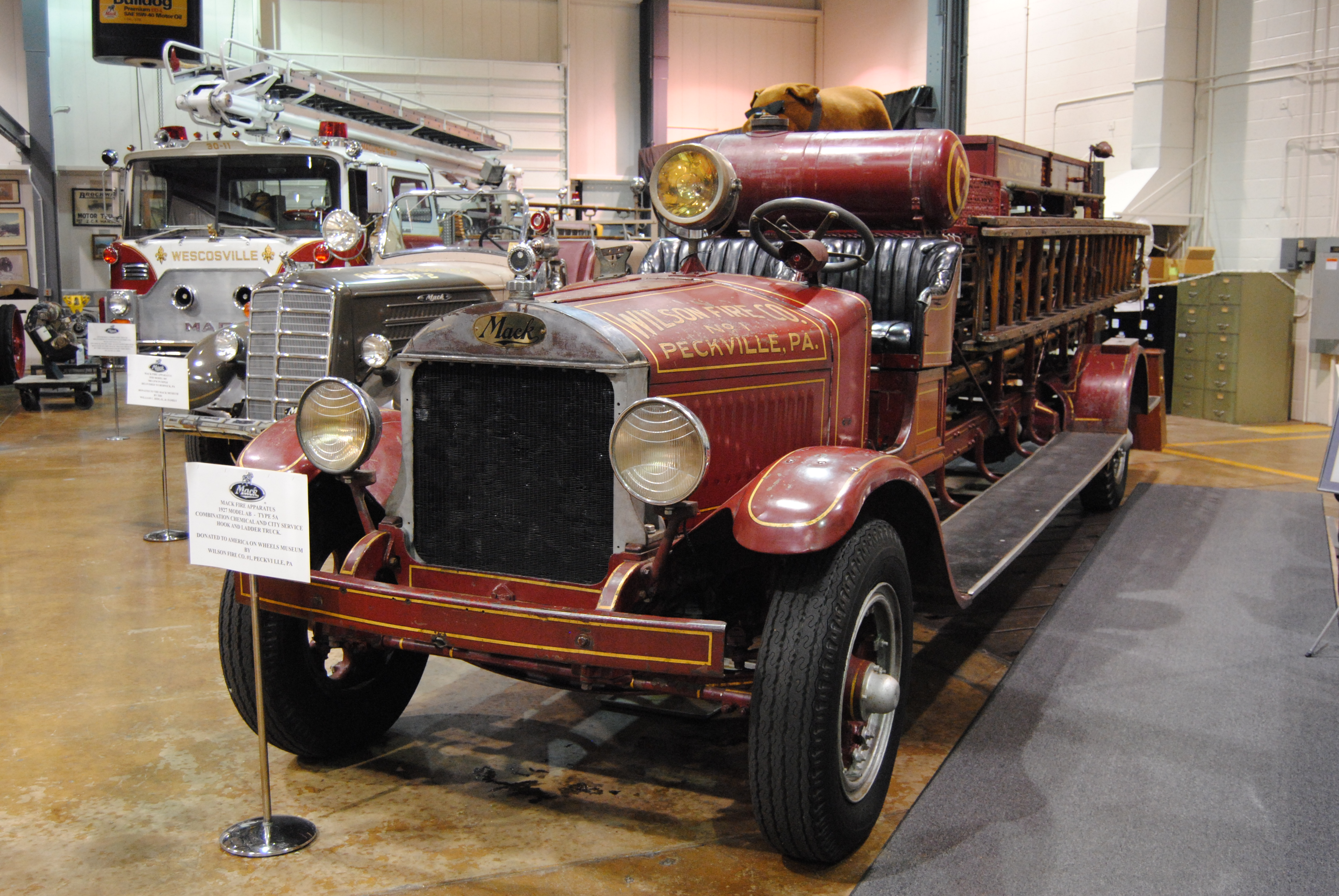 Mack Truck Historical Museum, Allentown, Pennsylvania